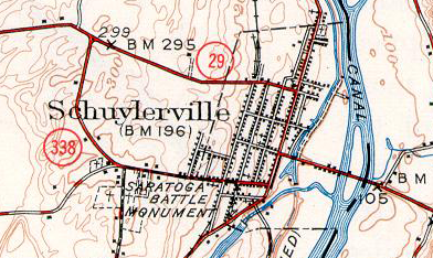 The original alignment of New York State Route 338 marked on a 1949 quadrangle of Schuylerville, New York.